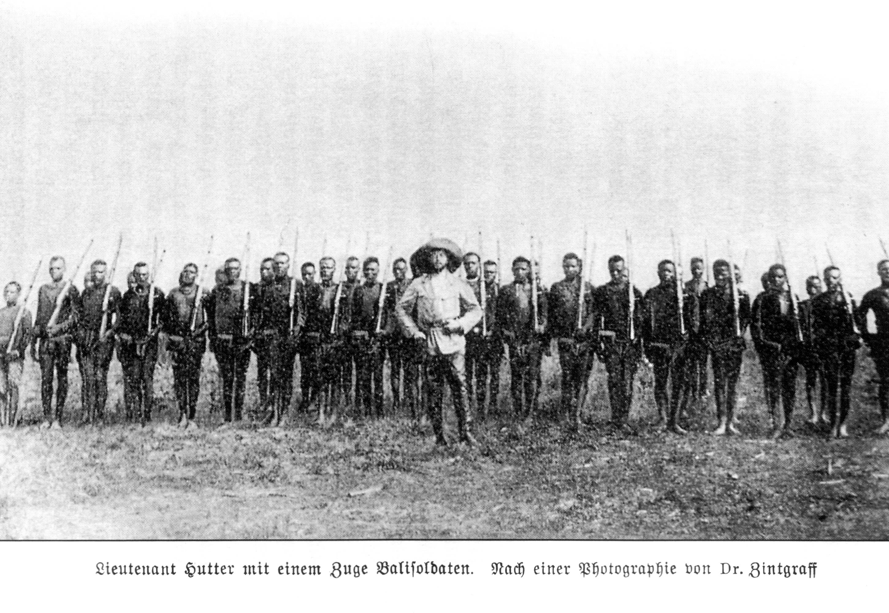 Lieutenant Hutter with Bali Soldiers